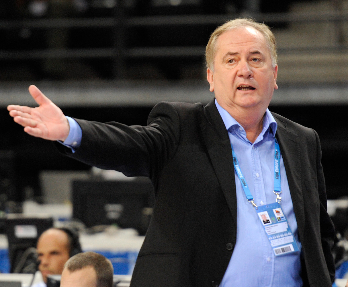 Head coach of Slovenia national basketball team Bozidar Maljkovic during EuroBasket 2011